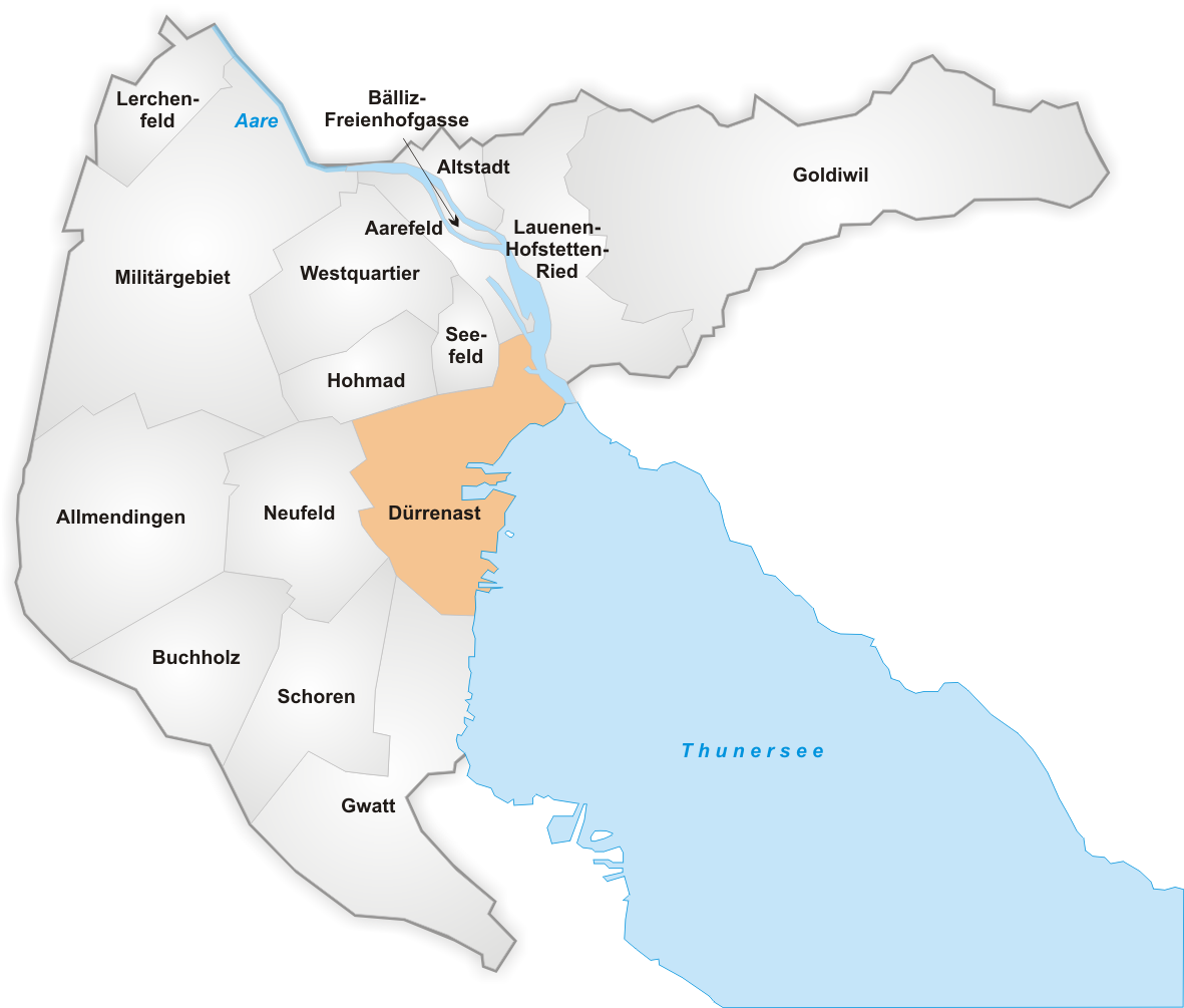 Thuner Quarter Dürrenast